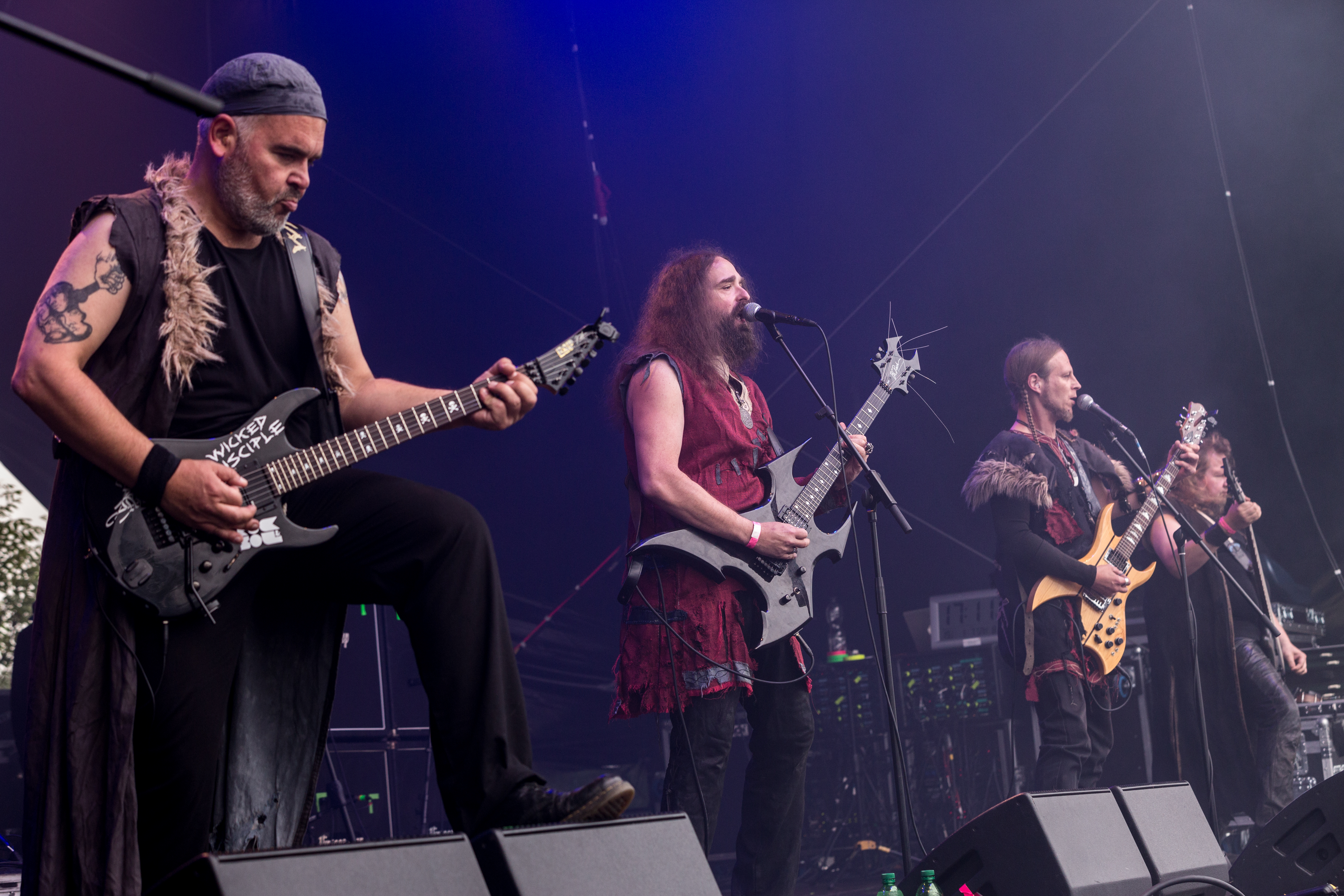 The German pagan metal band Black Messiah at the Metal Frenzy 2017 in Gardelegen/Germany.